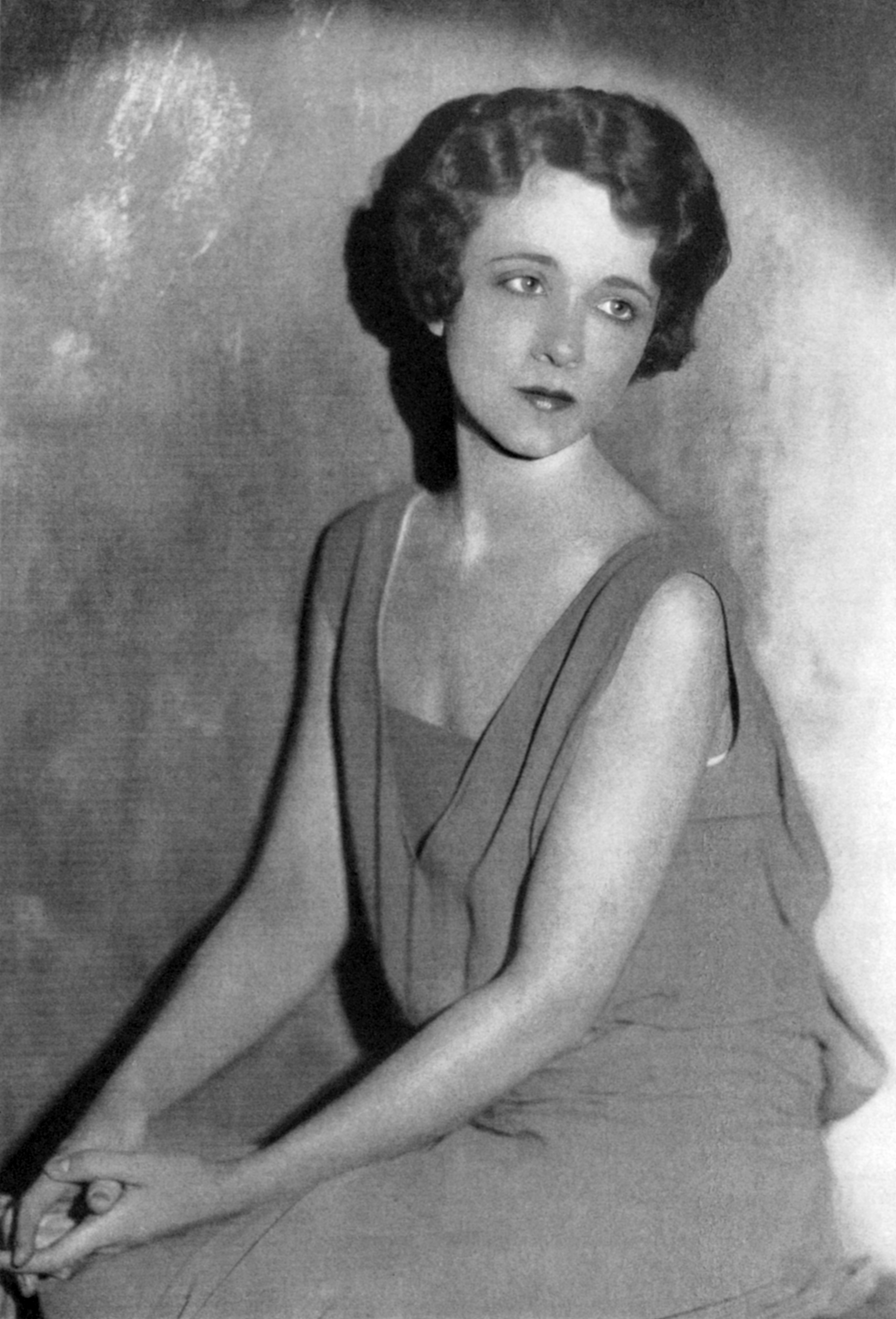 Portrait photograph of actress Dorothy Peterson, playing the role of Lucy Seward in the Broadway production of Dracula Caption reads, in part, as follows:Pretty, Blonde, Dorothy Peterson—The Lightmotif in "Dracula"In this blood-curdling thriller, dramatized by Hamilton Deane and John Balderston, from Bram Stoker's famous novel, Miss Peterson's fair comeliness shines through every scene like a flood of sunlight in a chamber of horrors.